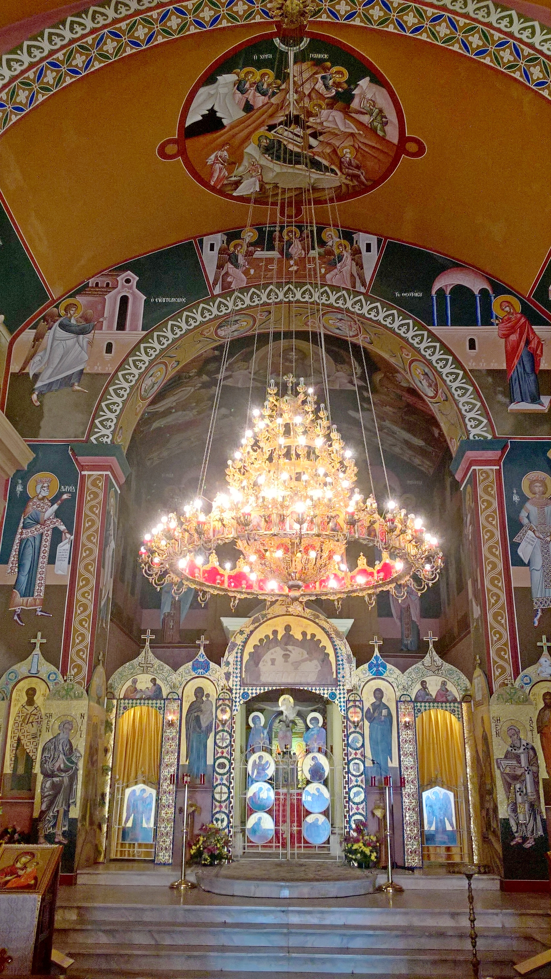 Inside view